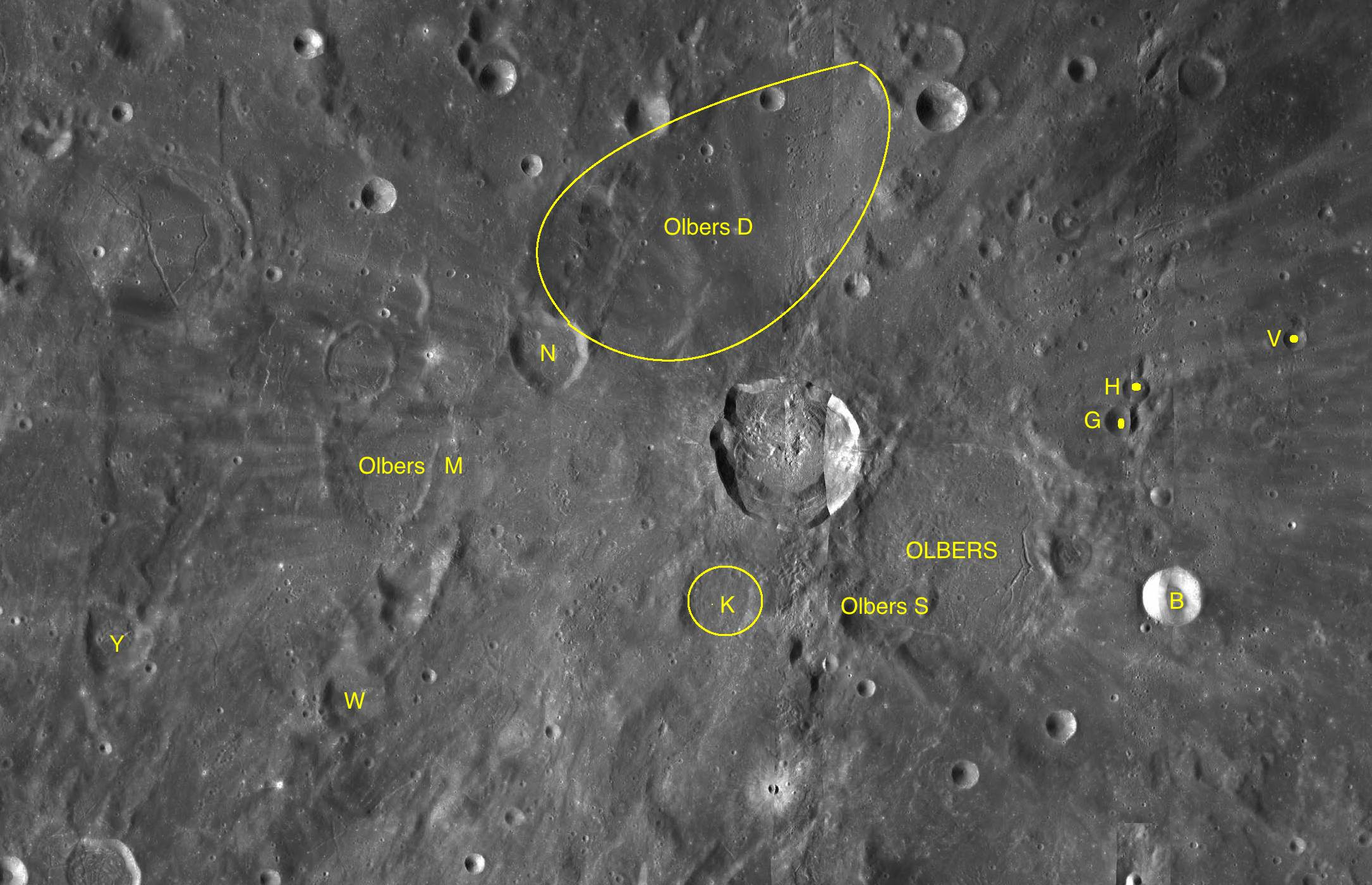 Part of the chart LAC-55 used for the presentation